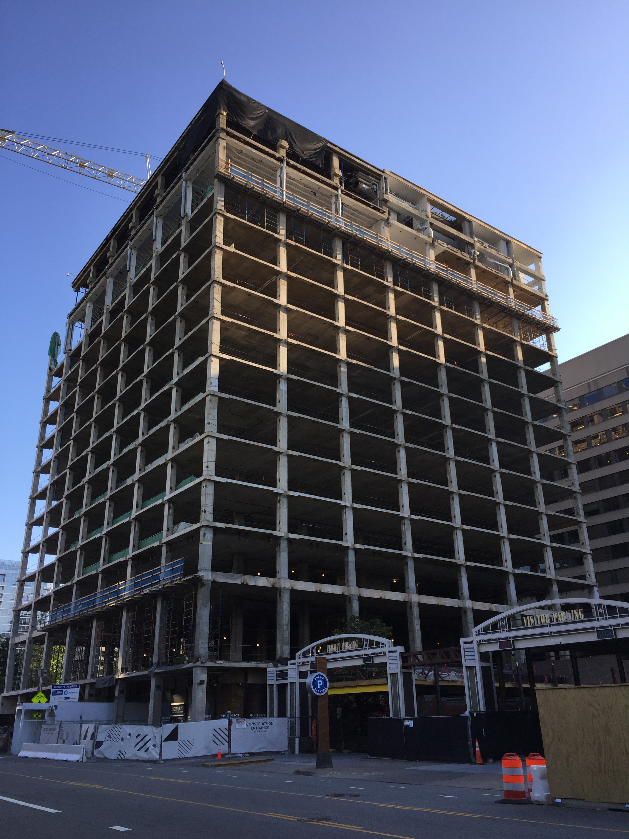 Renovation of 1750 Crystal Drive in Crystal City, Virginia in 2019